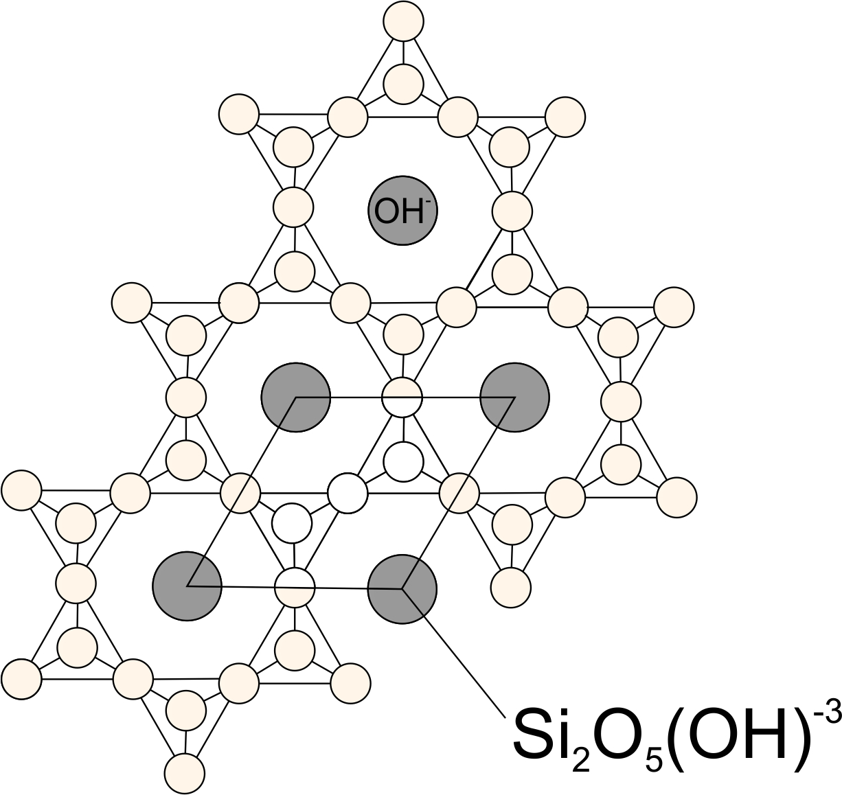 Phyllosilicates structure (with OH)